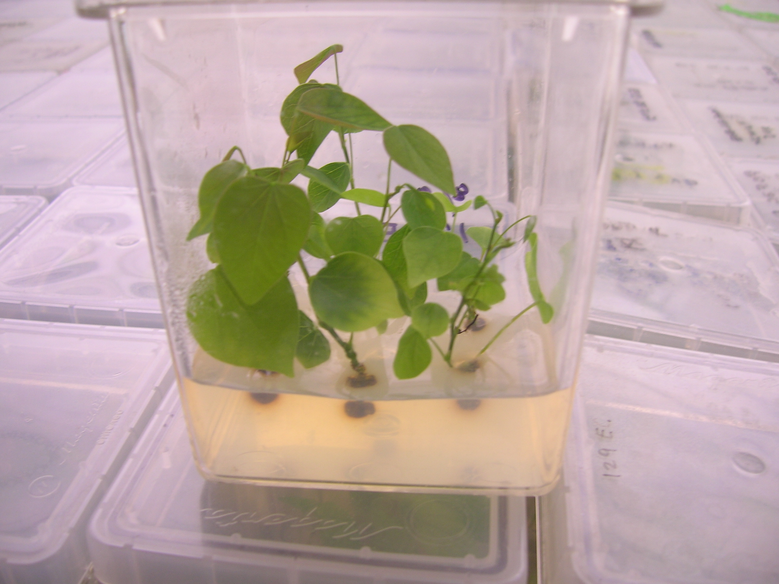 Cercis yunnanensis in tissue culture